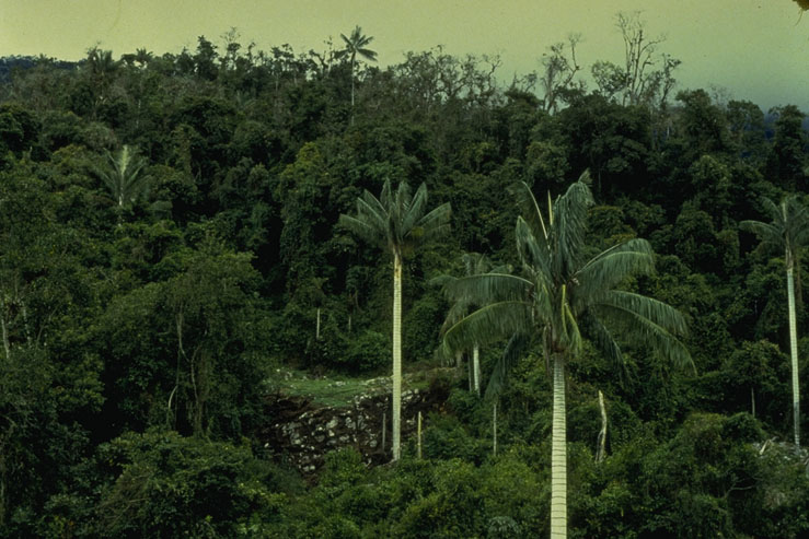 Tropical montane forest with palm trees.